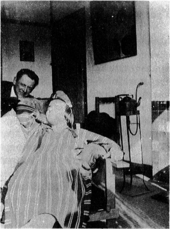 Photo of Kurt Schwitters and Nelly van Doesburg taken during the Dada Tour of the Netherlands at the house of Theo van Doesburg's second wife, Lena Milius, Klimopstraat 18, The Hague.